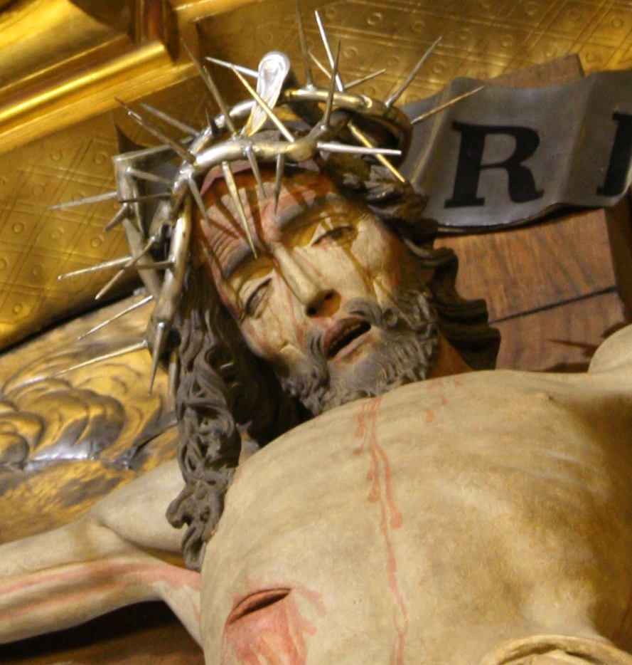 Stone crucifix in St. Mary Church in Cracow. Work of Veit Stoß (detail)